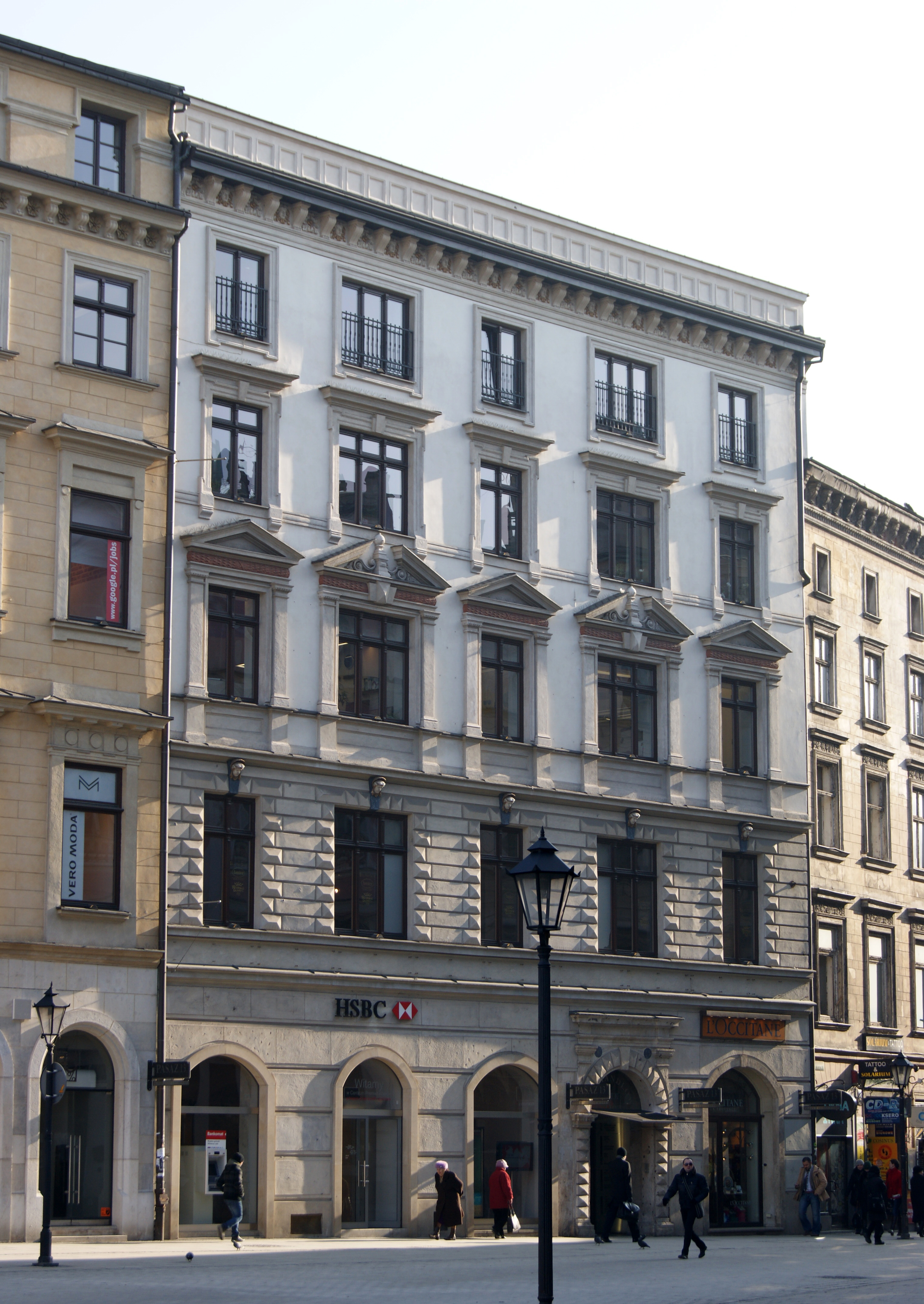 Pod Zlota Glowa house, 13 Main Market Square,Old Town, Krakow,Poland